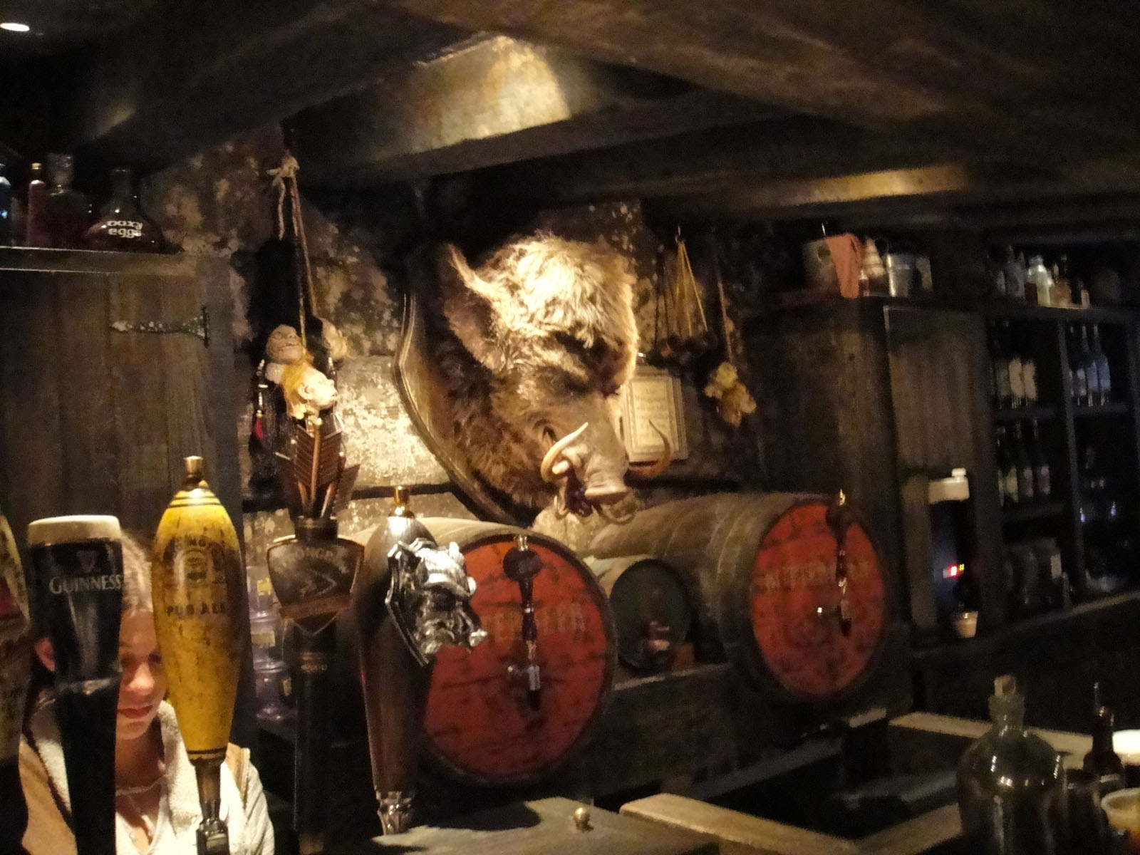 Wizarding World of Harry Potter - behind the bar at the Hog's Head pub